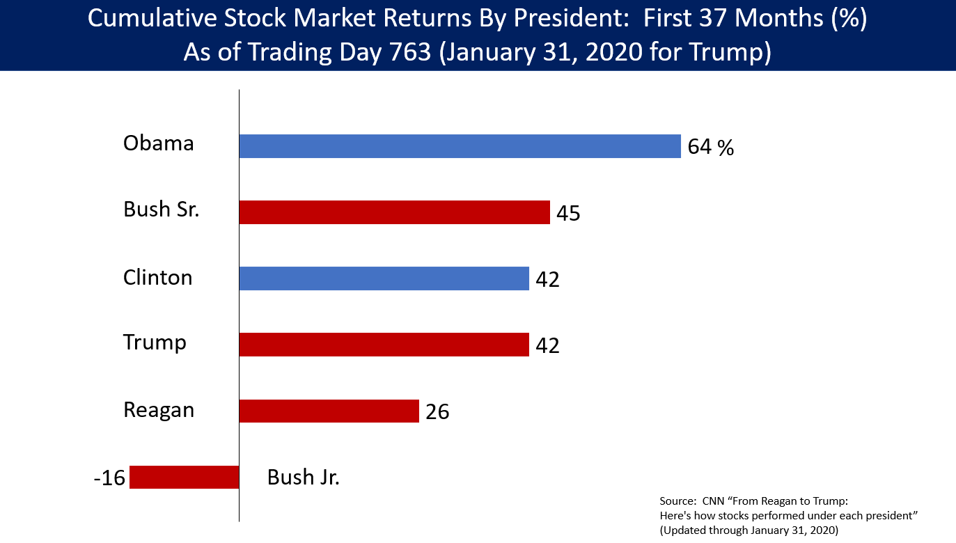 Stock market returns (S&P 500) by President as of day X of their Presidency find best Stock Market Newsletters